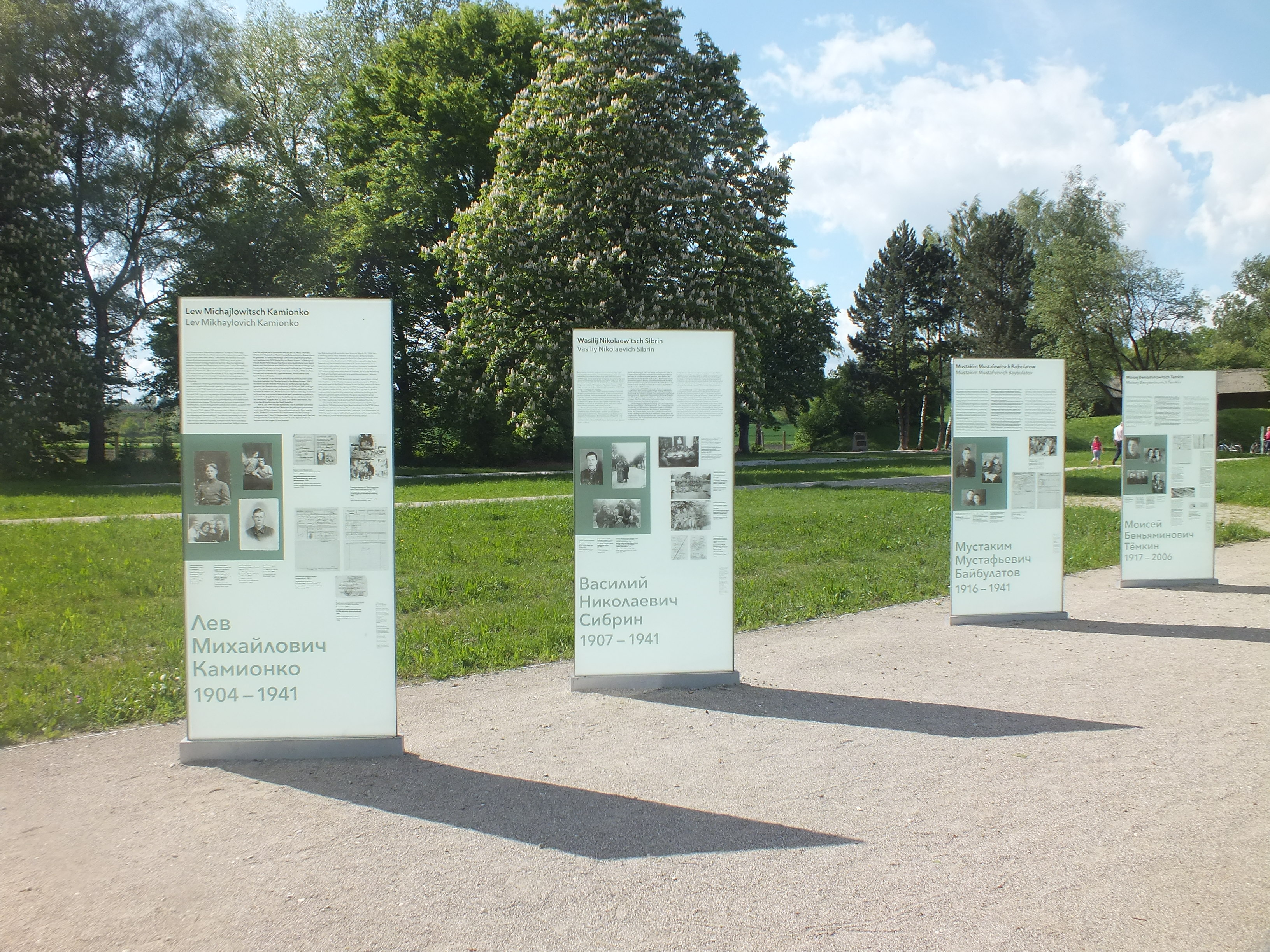 Shooting Range Hebertshausen